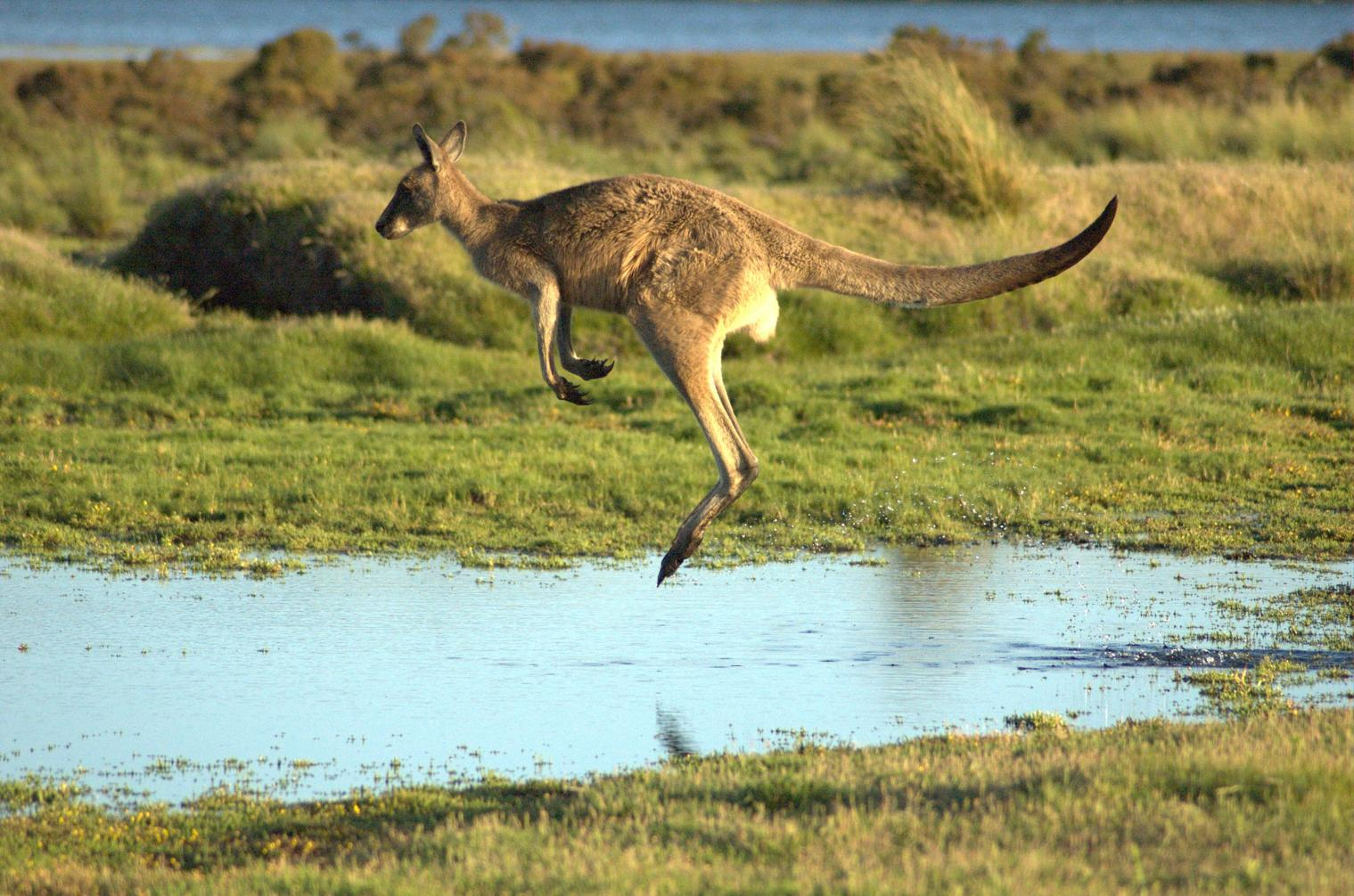 Forester (Eastern Grey) Kangaroo "flying" over a puddle of water. Narawntapu National Park, Tasmania. December 2005. An even higher resolution version of this photo is available. пан Бостон-Київський 17:45, 28 January 2006 (UTC)